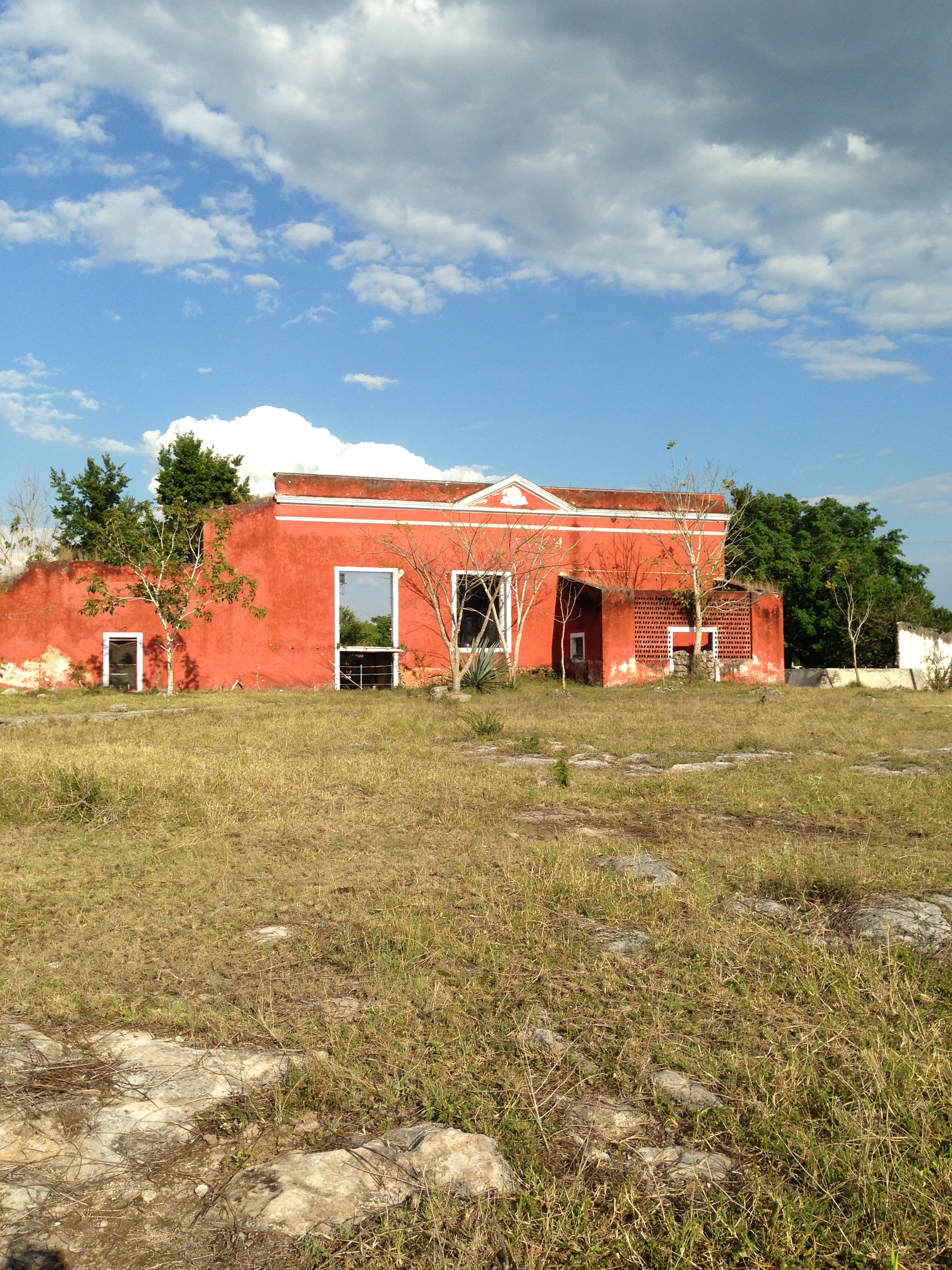 Plaza